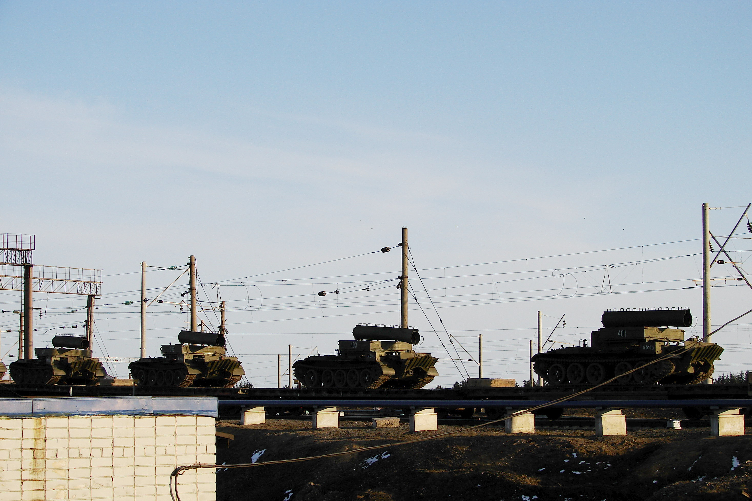 Rail transport of military equipment in Russia